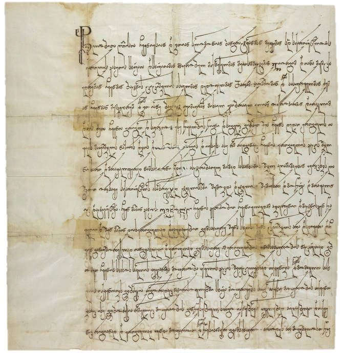 Royal charter of King George XII of Georgia